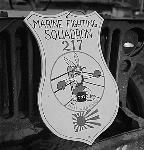 Insignia of Marine Squadron 217, based on Bougainville, on a U.S military vehicle